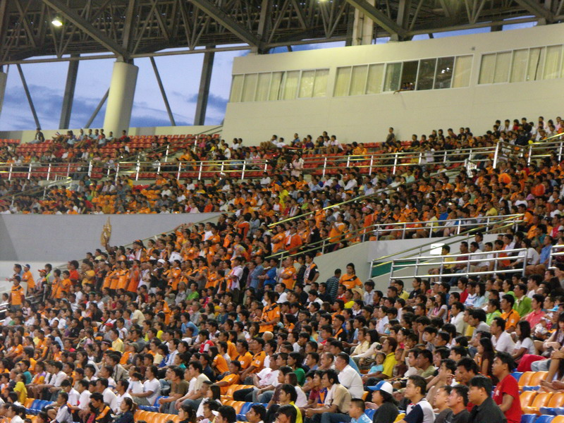 Fans of Nakhon Ratchasima FC